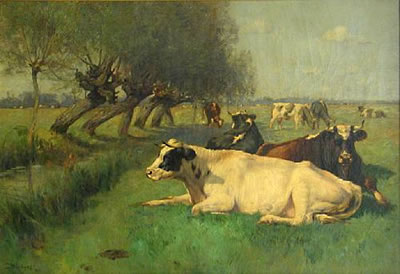 Afternoon in the Meadows, Bisbing, Henry Singlewood (1849-1933).